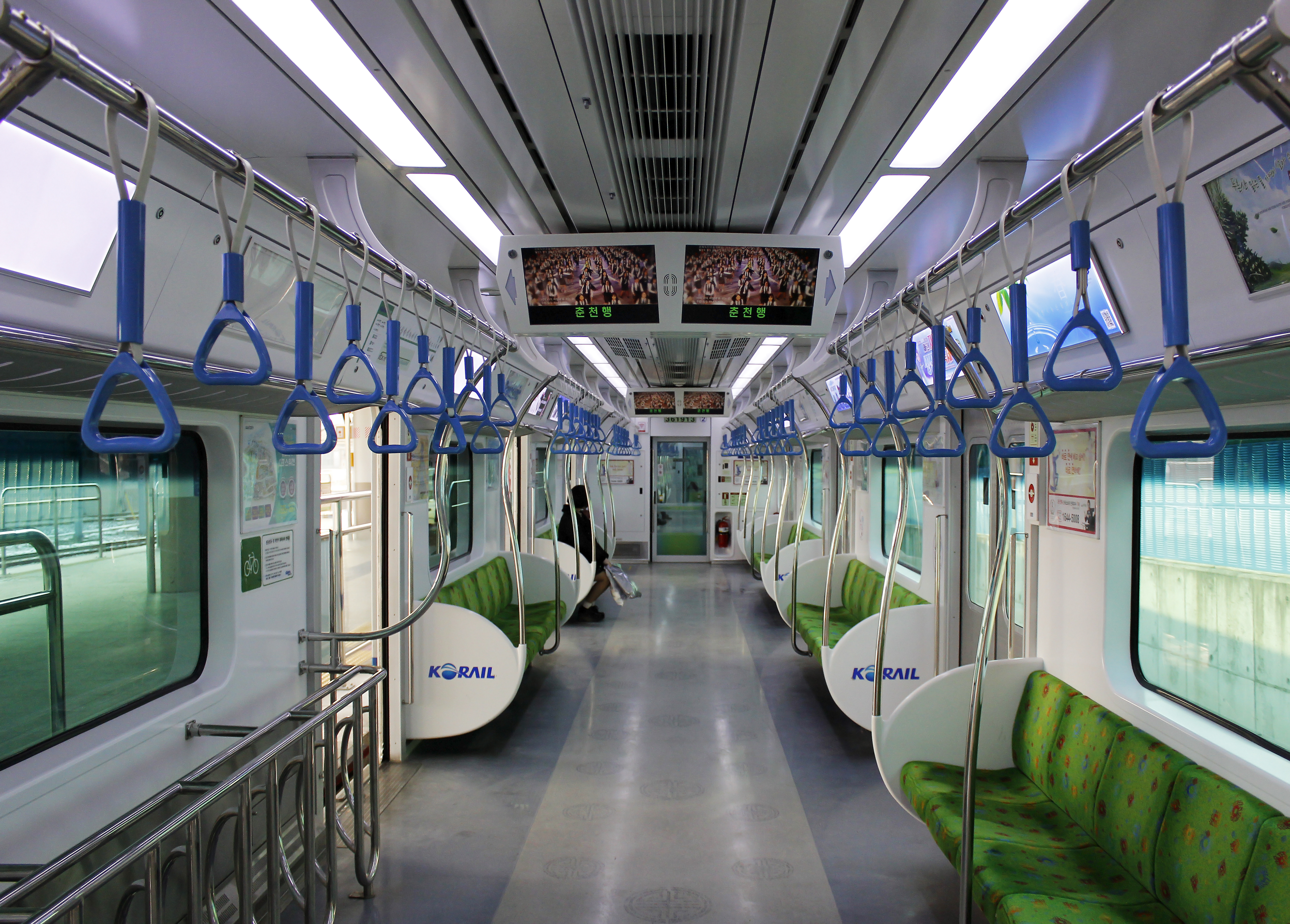 361X13